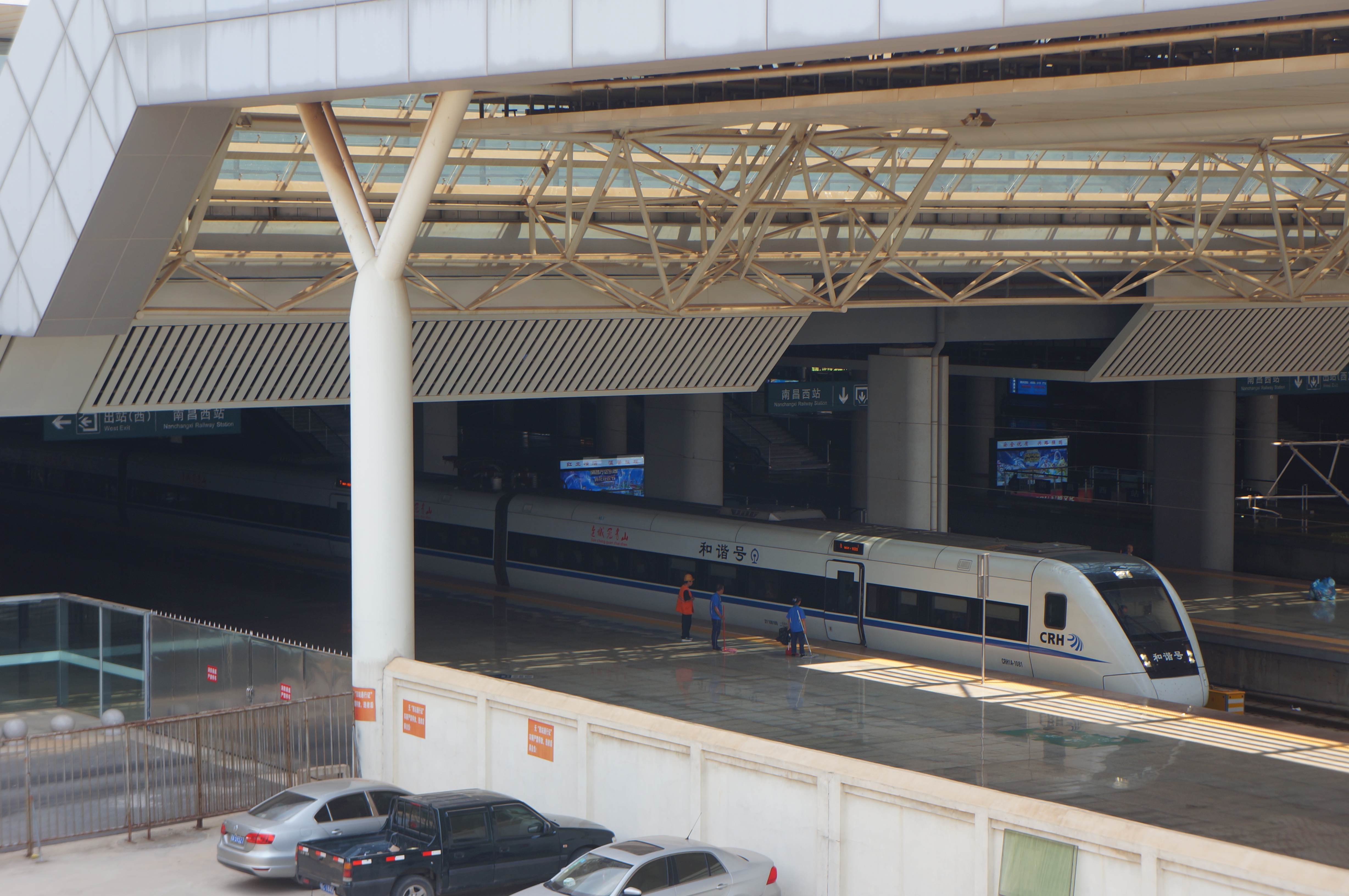 201608 CRH1A-1081 (D6xxx? Fuzhou to Nanchangxi) at Nanchangxi Station